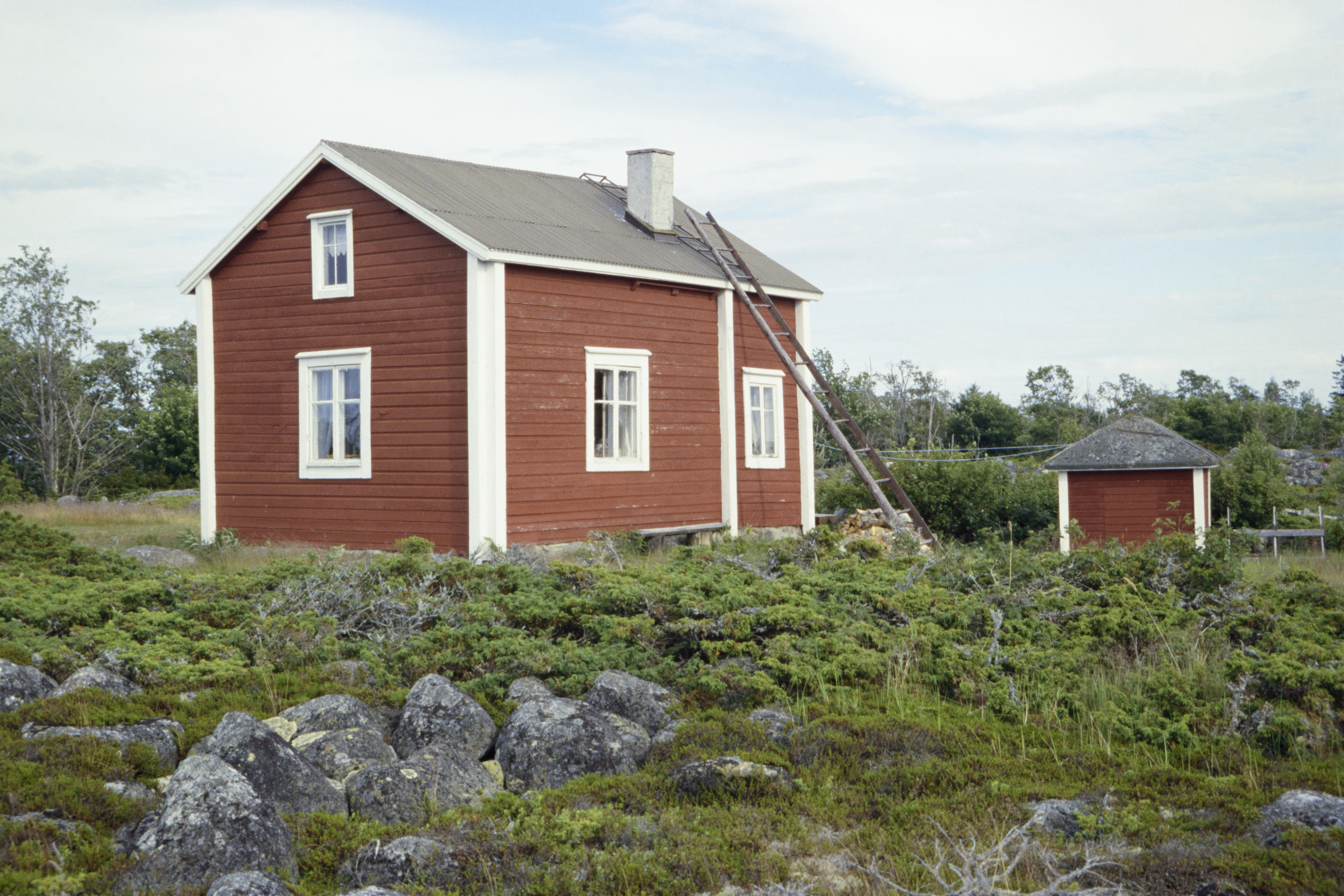 The old house for pilots on Stubben.